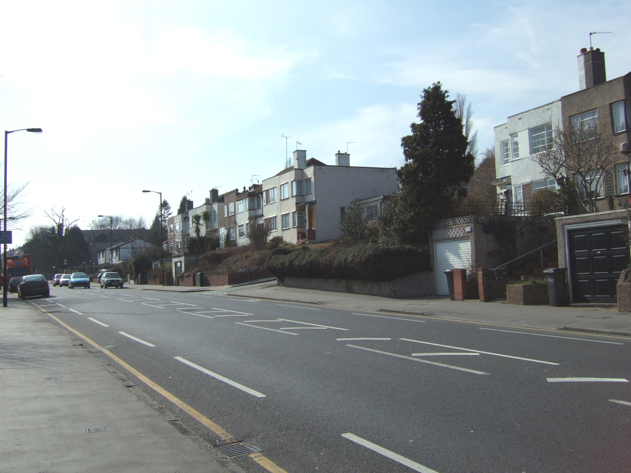 Section of the Art Deco houses of Selsdon